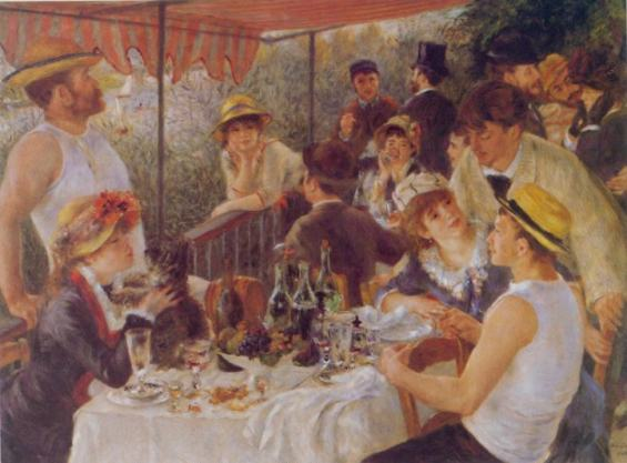 Le Déjeuner des canotiers (The Boating Party)